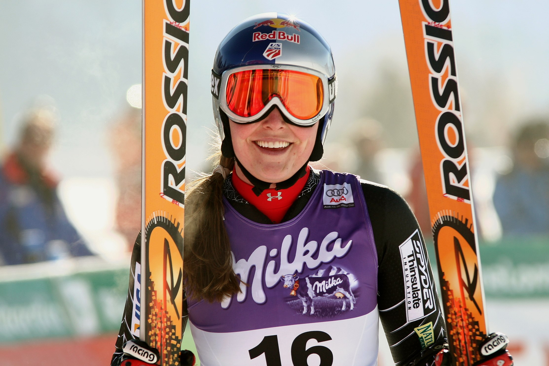 Lindsey Vonn in St. Moritz, Switzerland